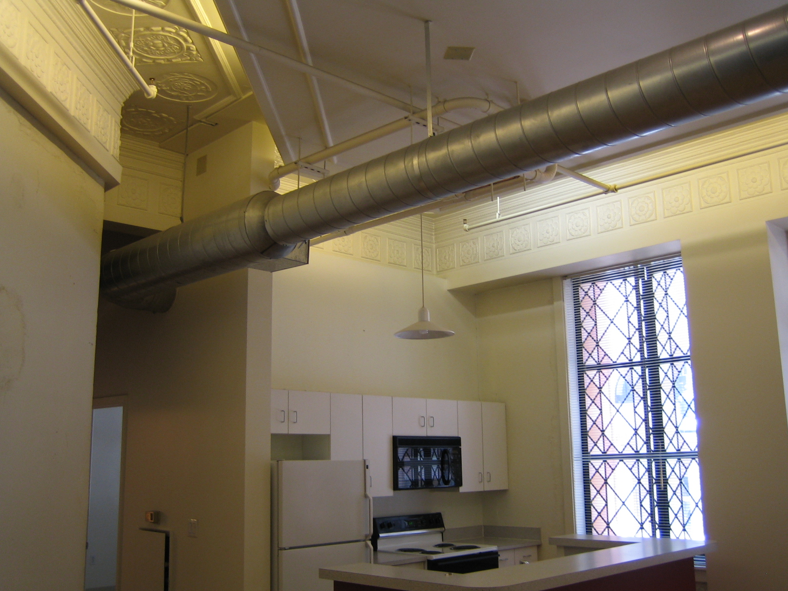 Boston Loft looking into the kitchen from the living area.